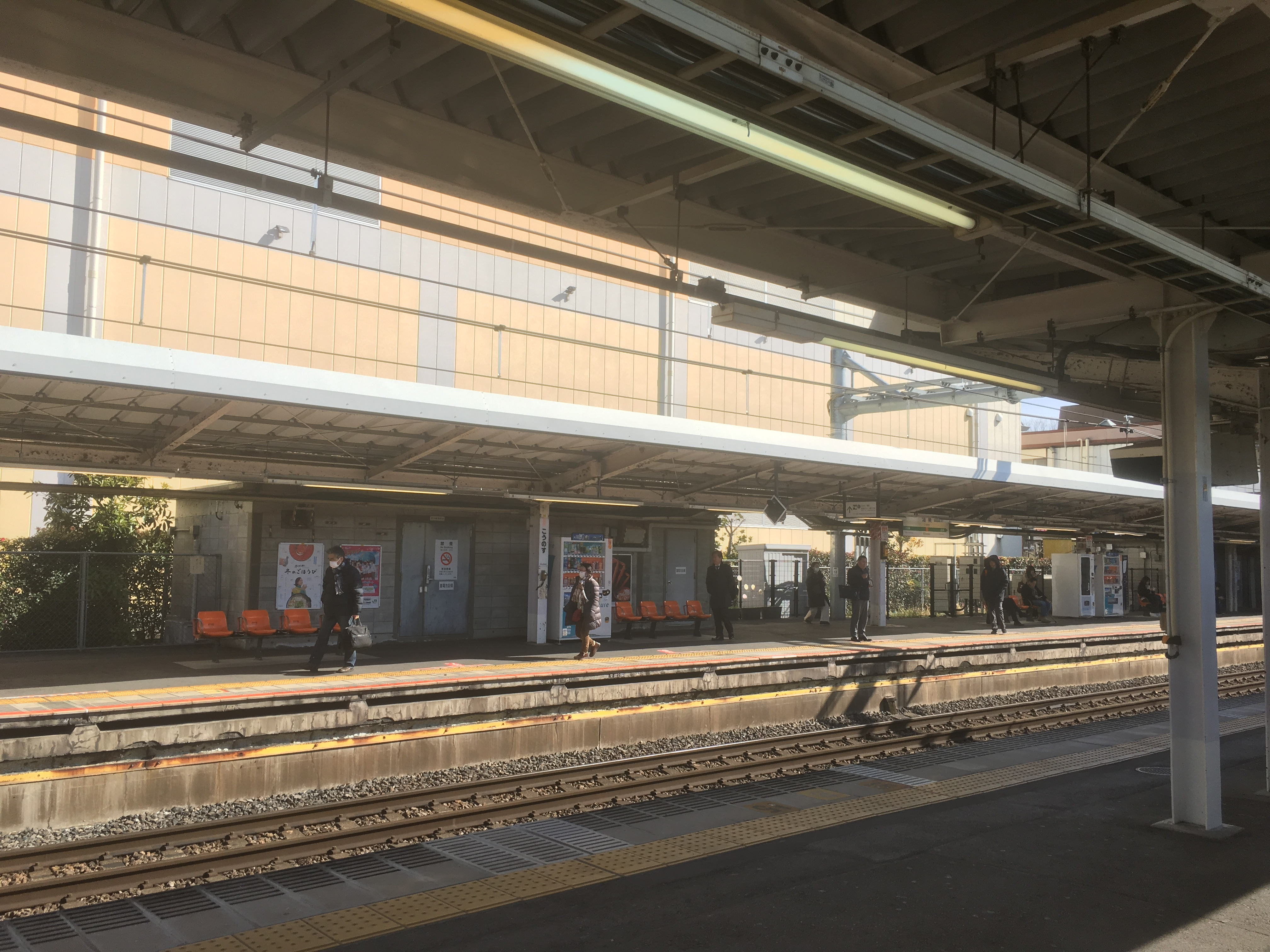 Kōnosu Station platforms (鴻巣駅のホーム)